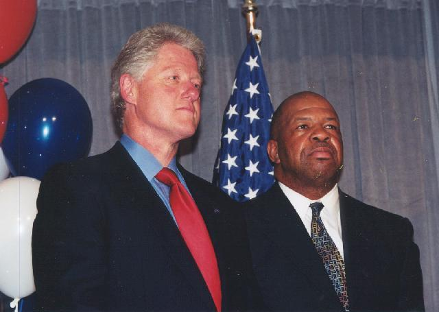 Congressman Elijah Cummings stands with President Bill Clinton (August, 2000)